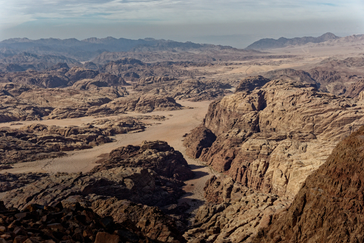 Overlook from highest point of Jordan